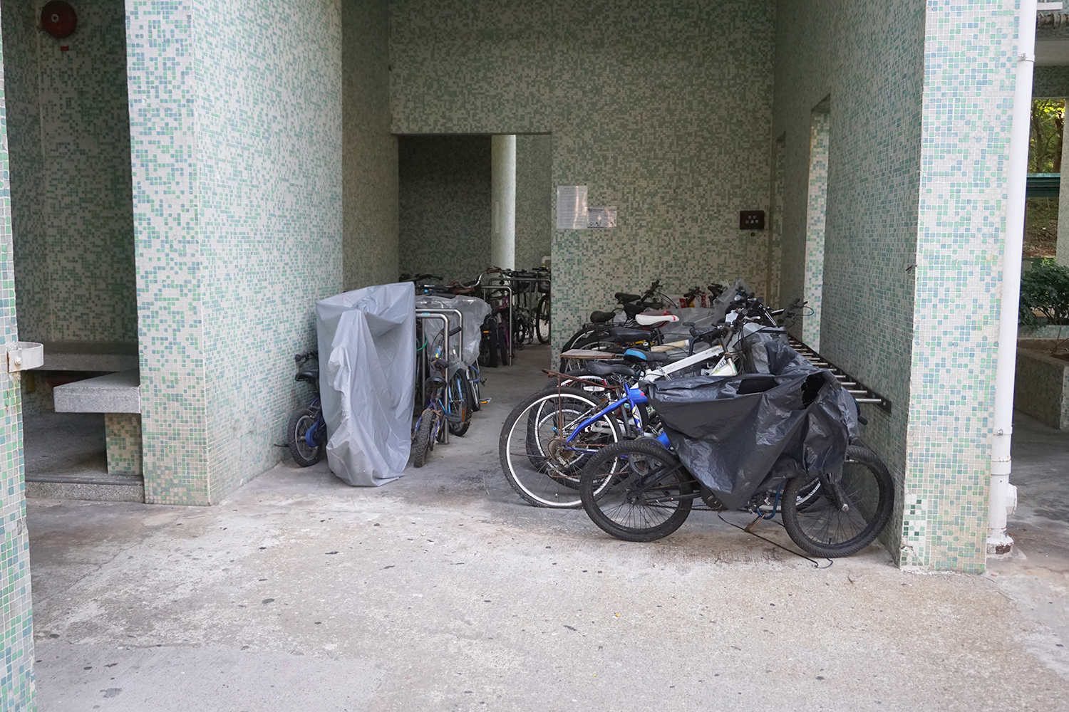 Saddle Ridge Garden in Ma On Shan, Hong Kong.